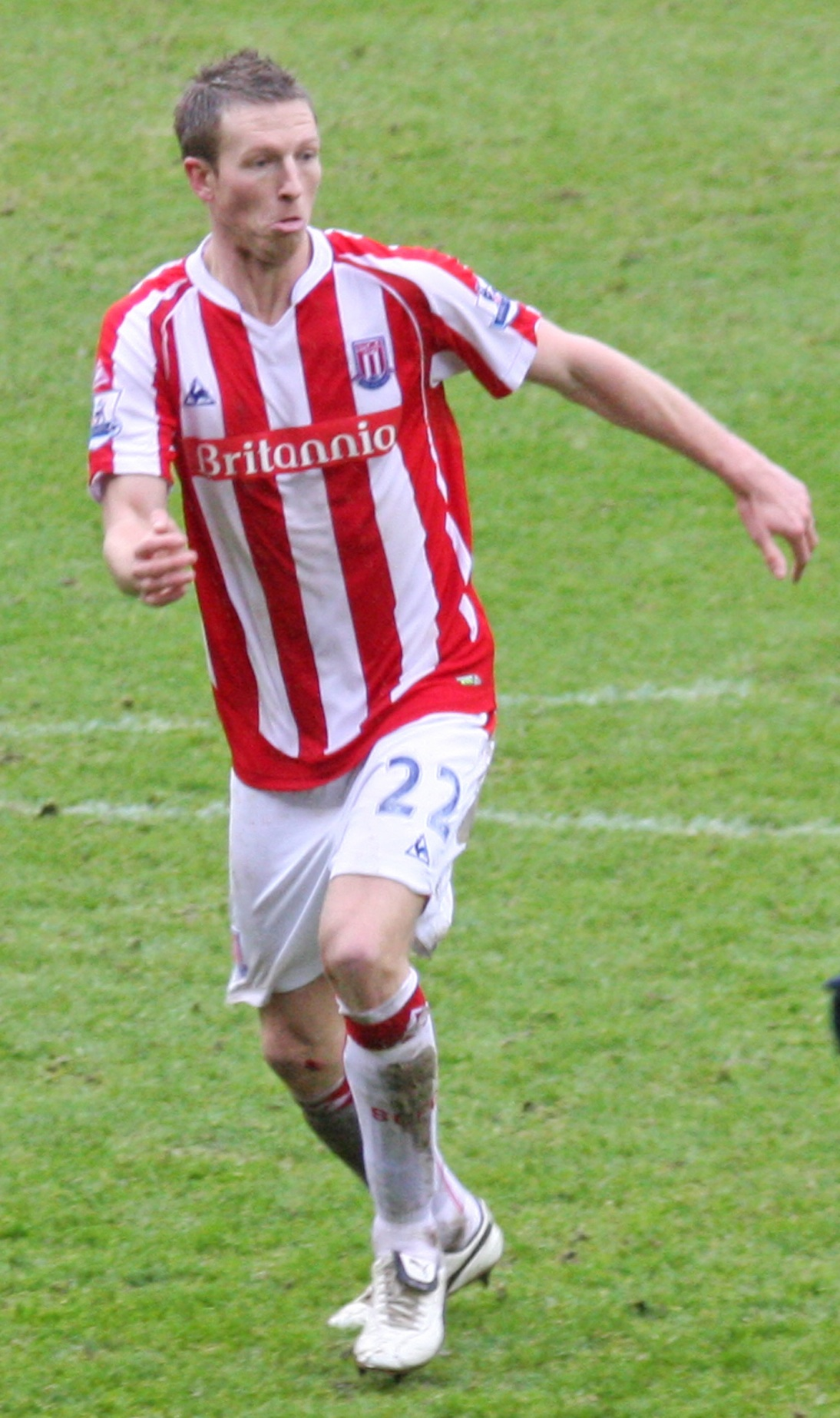 Stoke City FC V Arsenal 61